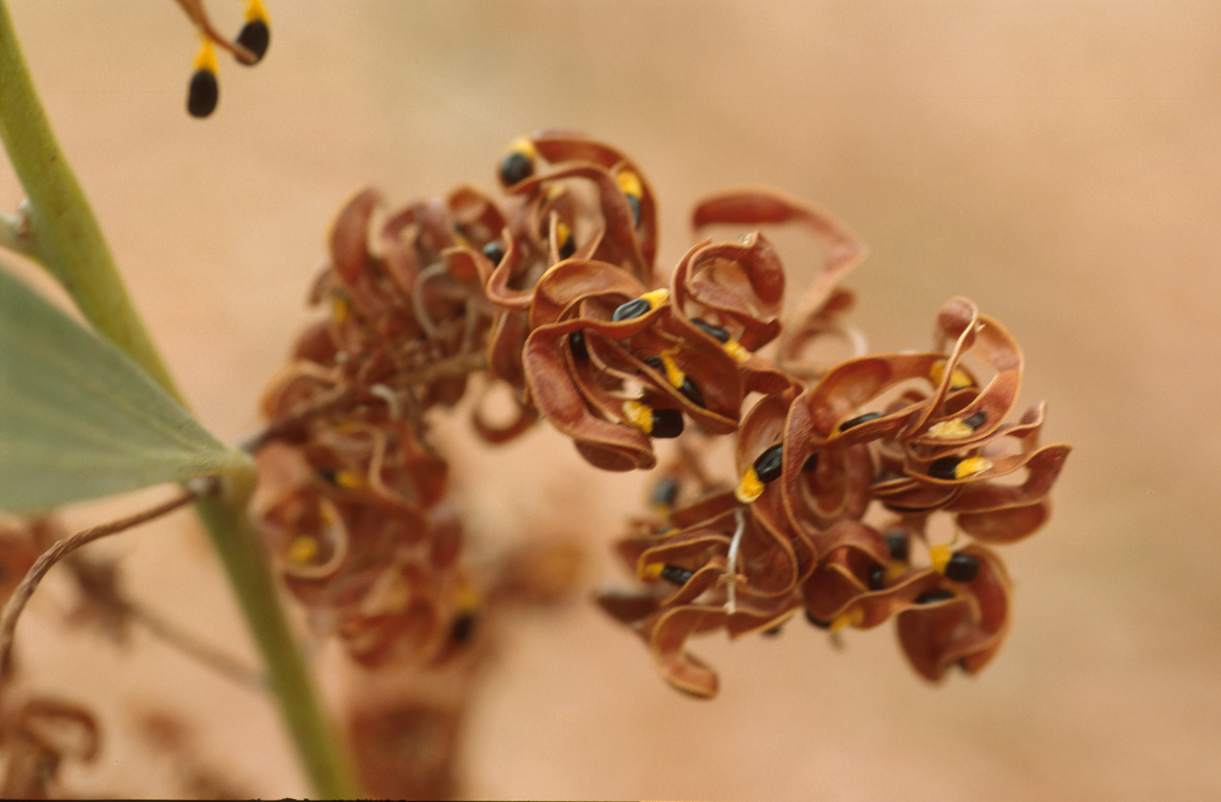 Acacia colei var. ileocarpa seed pods. Photo credit: Maurice MacDonald